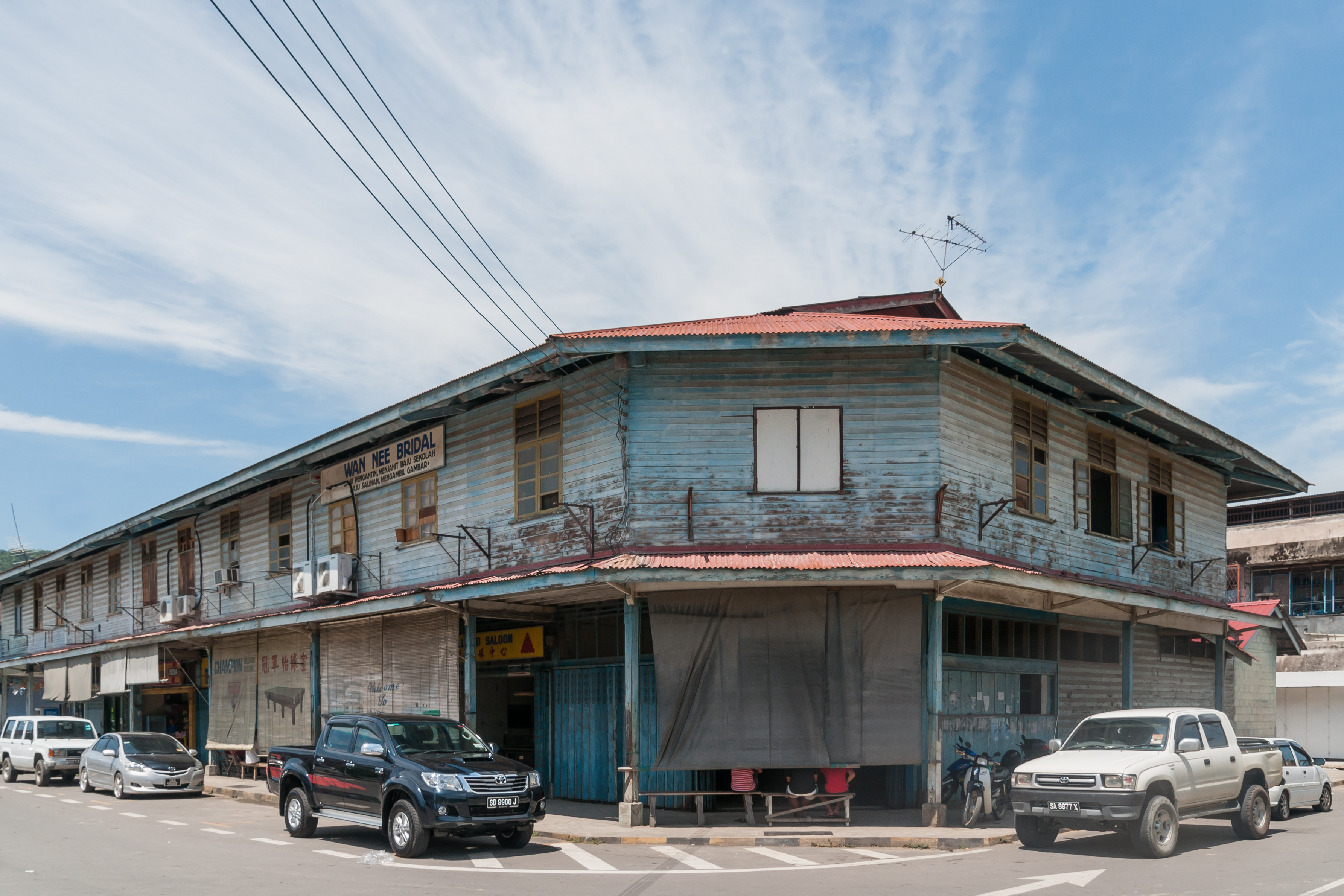 Tamparuli, Sabah: Old Shophouse